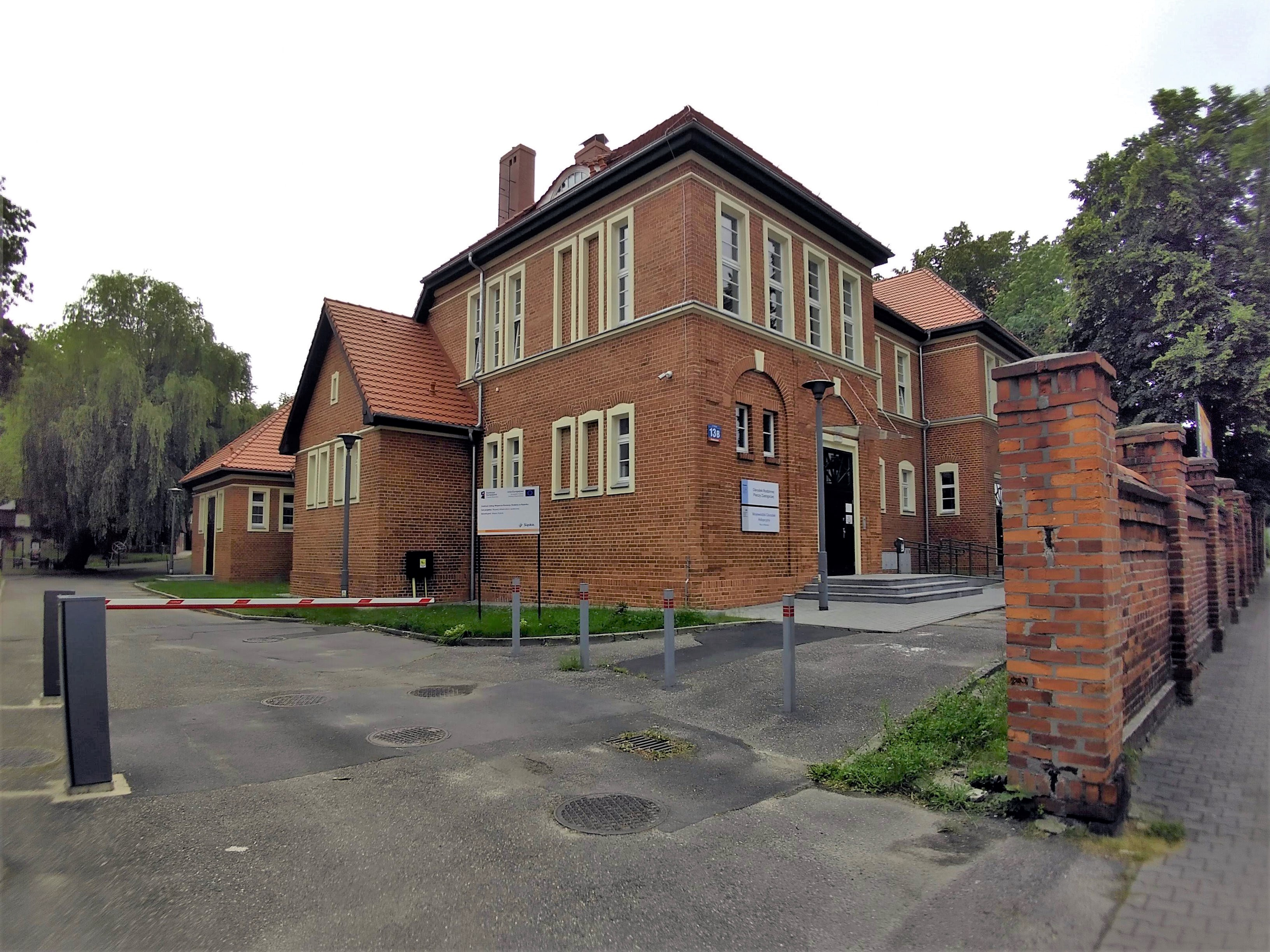 Old hospital complex Julius in Rybnik, Upper Silesia, Poland